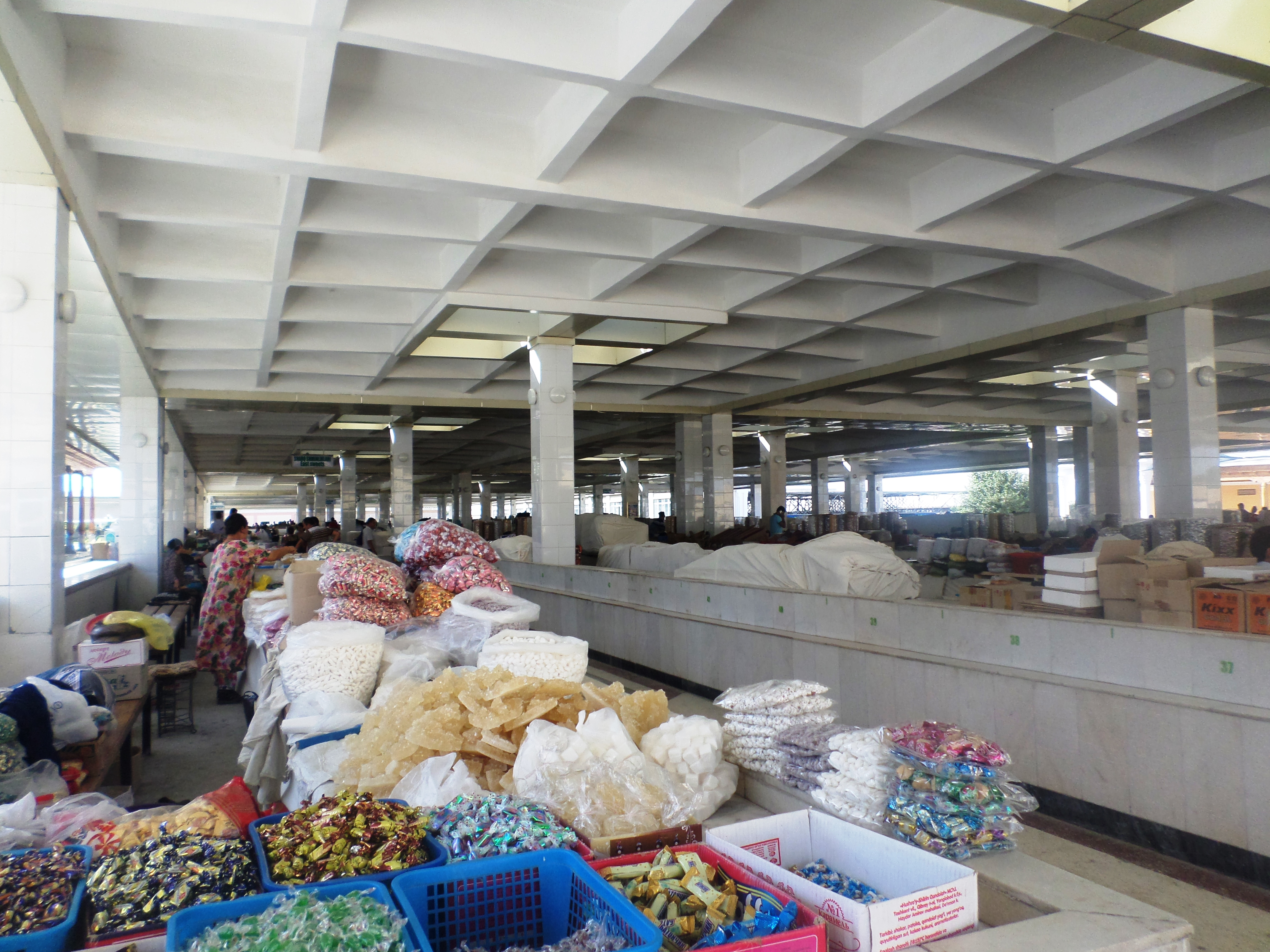 Avenues of modern Samarkand